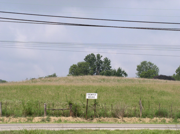 A photo of the Tremper Mound and Earthworks, a Hopewell tradition ceremonial mound site in Scioto County, Ohio.